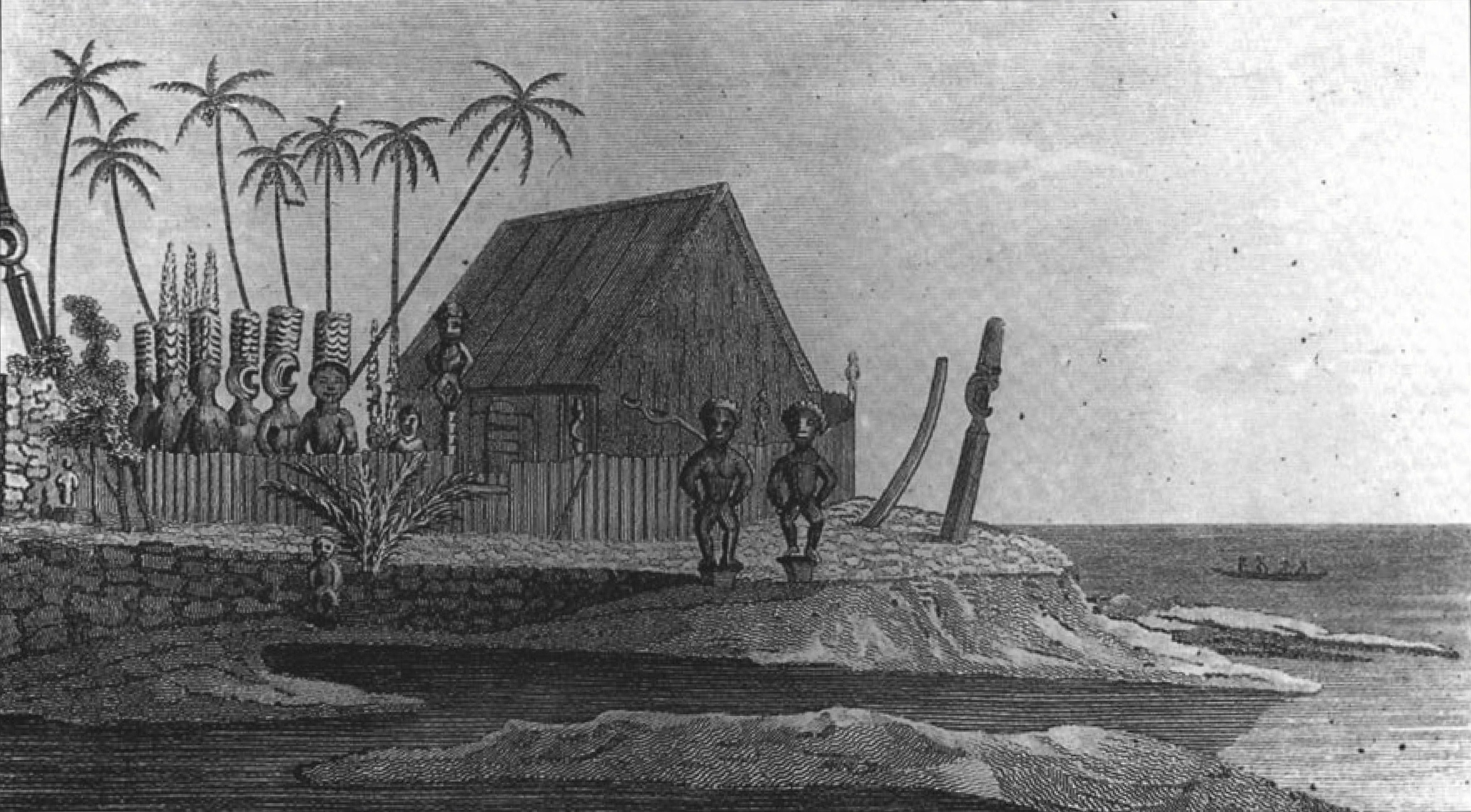 The Depository of the Kings of Hawaii, adjoining the Place of Refuge at Honaunau, engraving by J. Archer after Rev. William Ellis, 1822-1823. Said to have been built by Keaweikekahialiʻiokamoku, Hale O Keawe was restored by Kamehameha I. Kaʻahumanu had it dismantled in the 1820s after her conversion to Christianity.